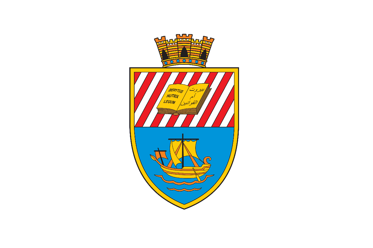 Flag of Beirut, capital of Lebanon.